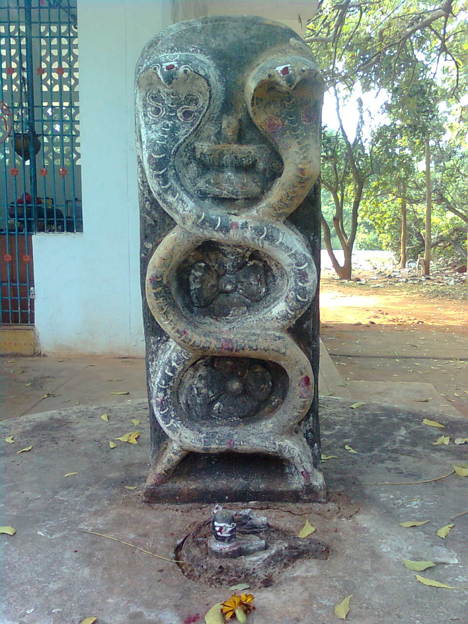 Gudilova, Anandapuram mandal, Visakhapatnam district